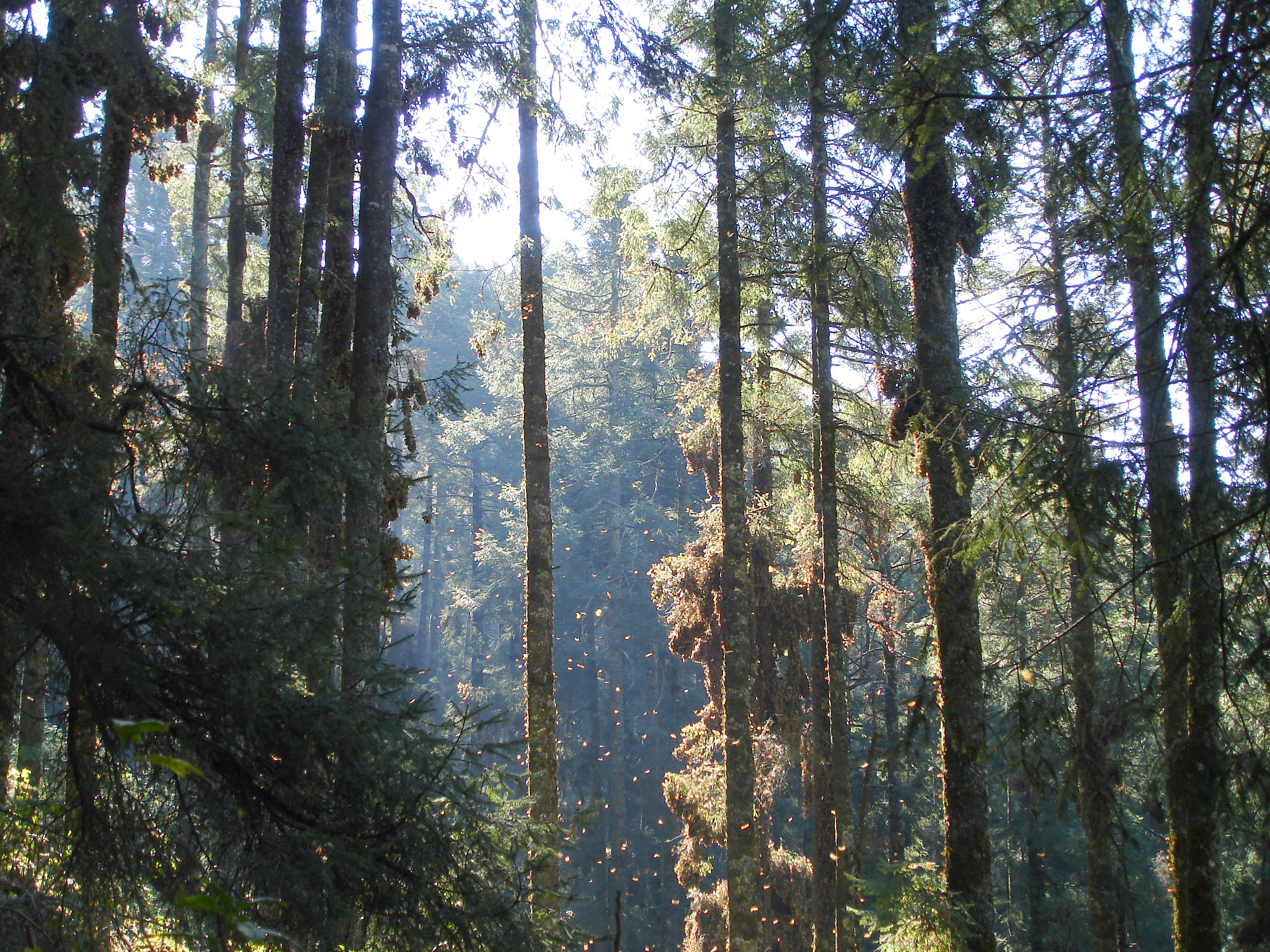 Sacred Fir Abies religiosa forest with Monarch Butterflies Danaus plexippus, Chincua Monarch Sanctuary, Angangueo, Michoacán, Mexico